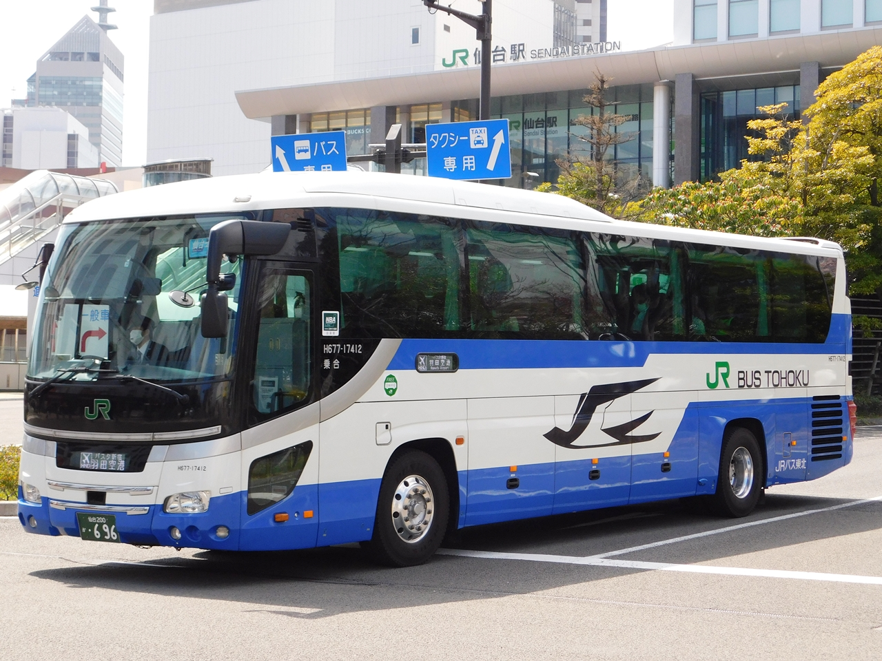 JR bus Tohoku Hino S'elega (2RG-RU1ESDA)on highwaybus "Sendai-Haneda go"(Sendai station - Shinjuku station,Tokyo (Haneda) International Airport)